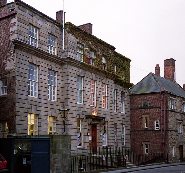 An imposing facade due to the all-over use of rustication, a feature normally reserved for the ground floor alone. It was built c1730 for Sir Robert Eden (last governor of Maryland before US independence). Grade II* listed. It is now occupied by St John's College, a college of the University of Durham.